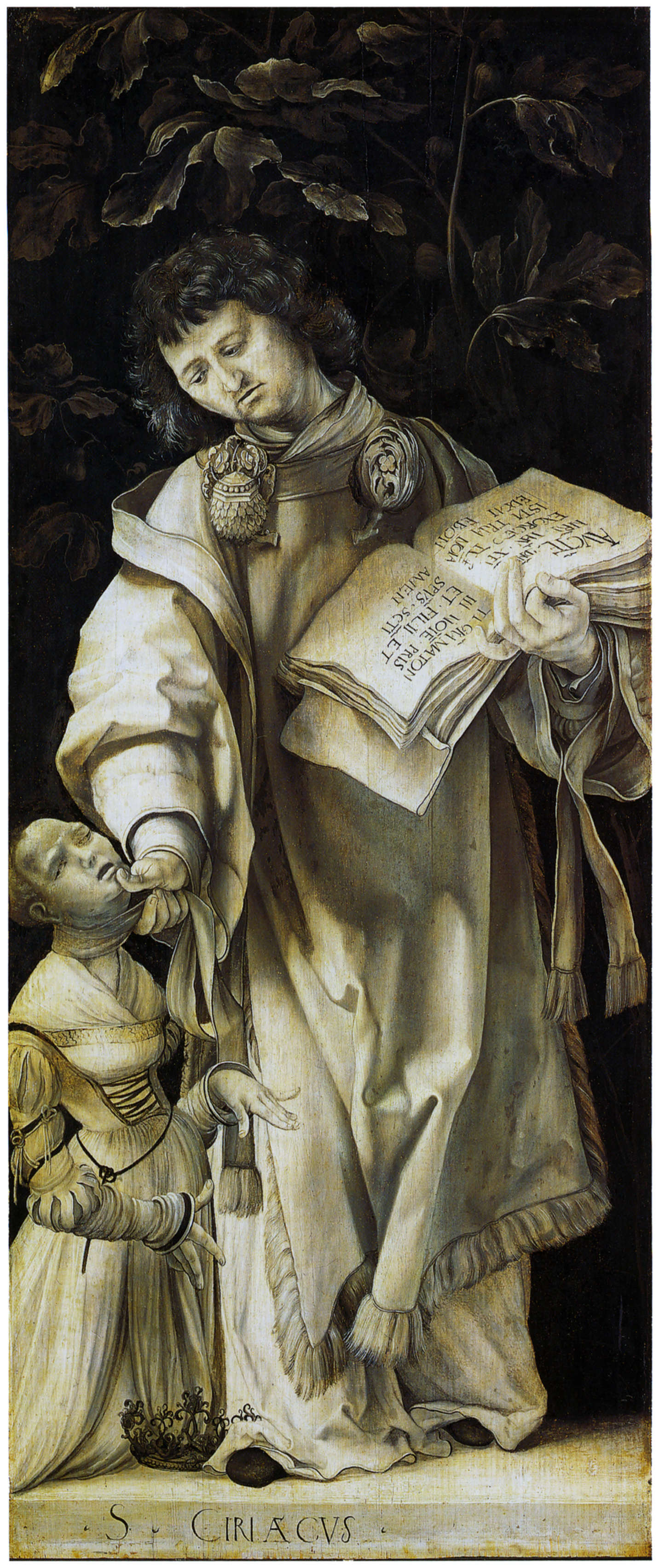 Standing panel: St. Cyriacus exorcizing the daughter of Emperor Diocletian